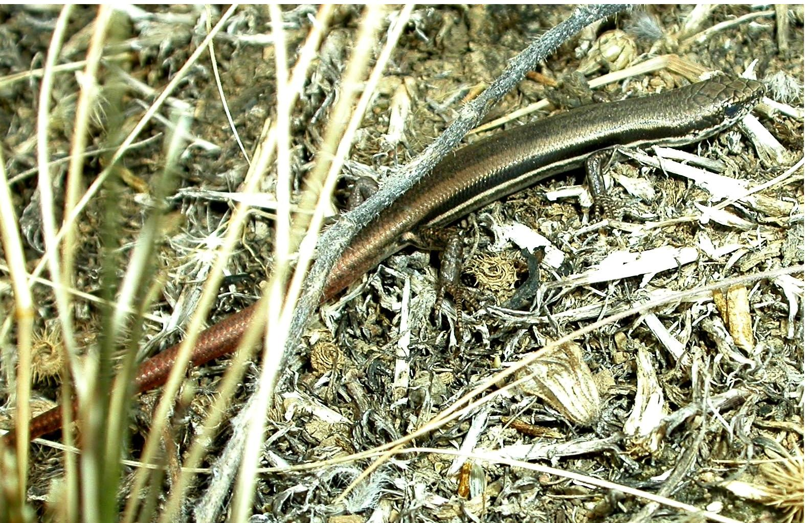 Morethia boulengeri (Ogilby, 1890), near Yass, NSW, 22 March 2008